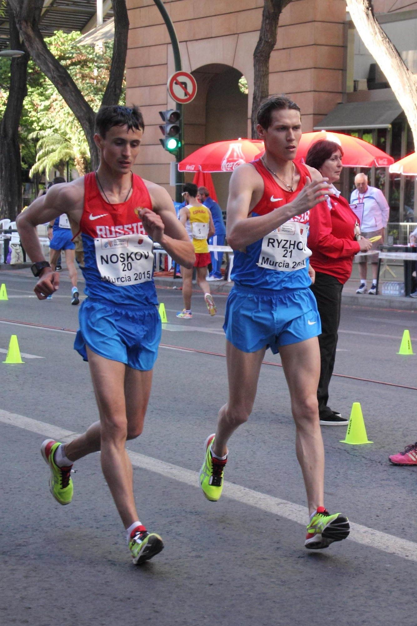 Mikhail_Rizhov (21) and Ivan_Noskov (20) in the European Cup Race Walking 2015 (Murcia, Spain).